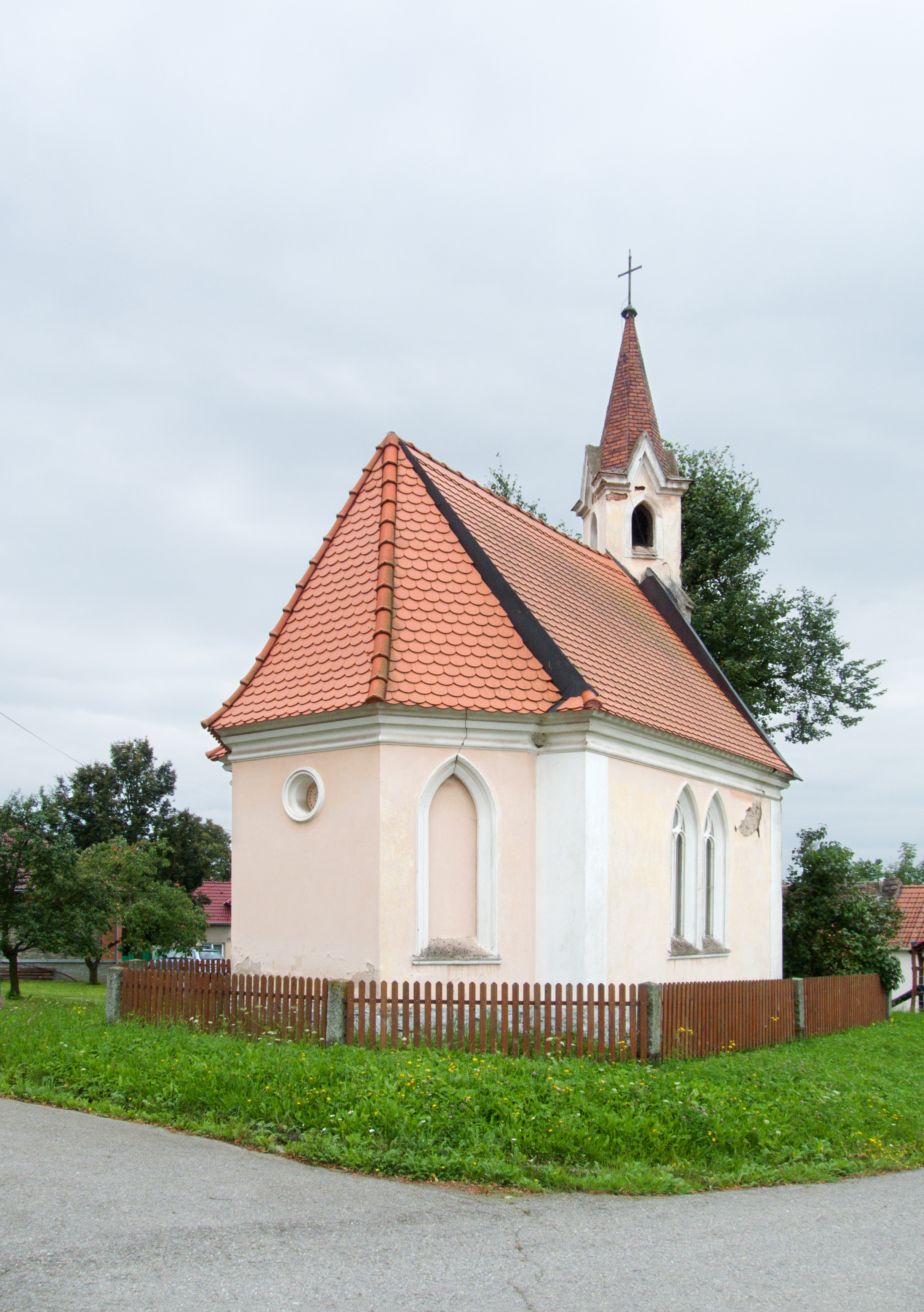 Saint Wenceslaus Chapel in the village of Netěchovice, České Budějovice District, Czech Republic as seen from the west